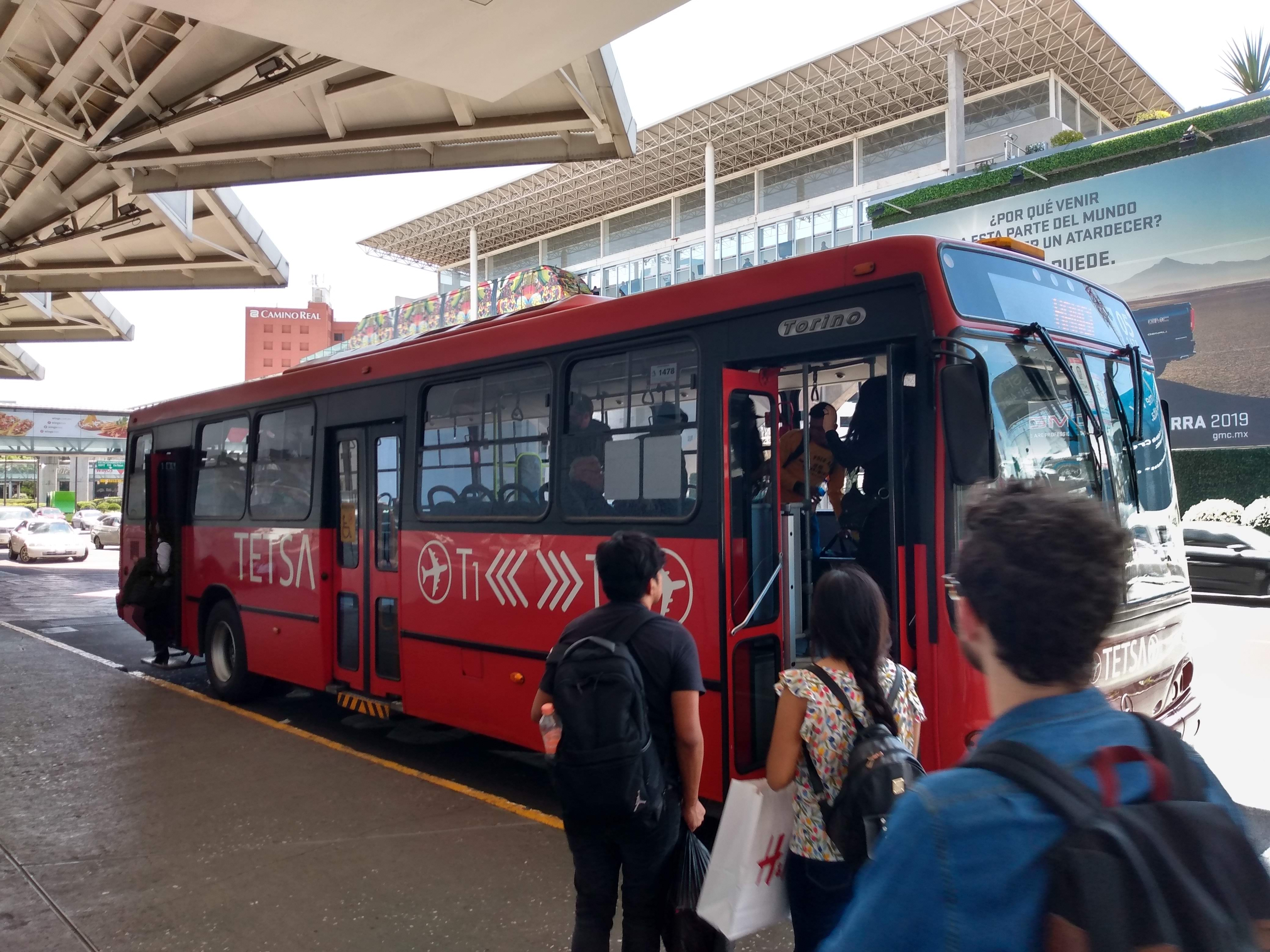 Shuttle bus between Terminals 1 and 2, Mexico City International Airport.